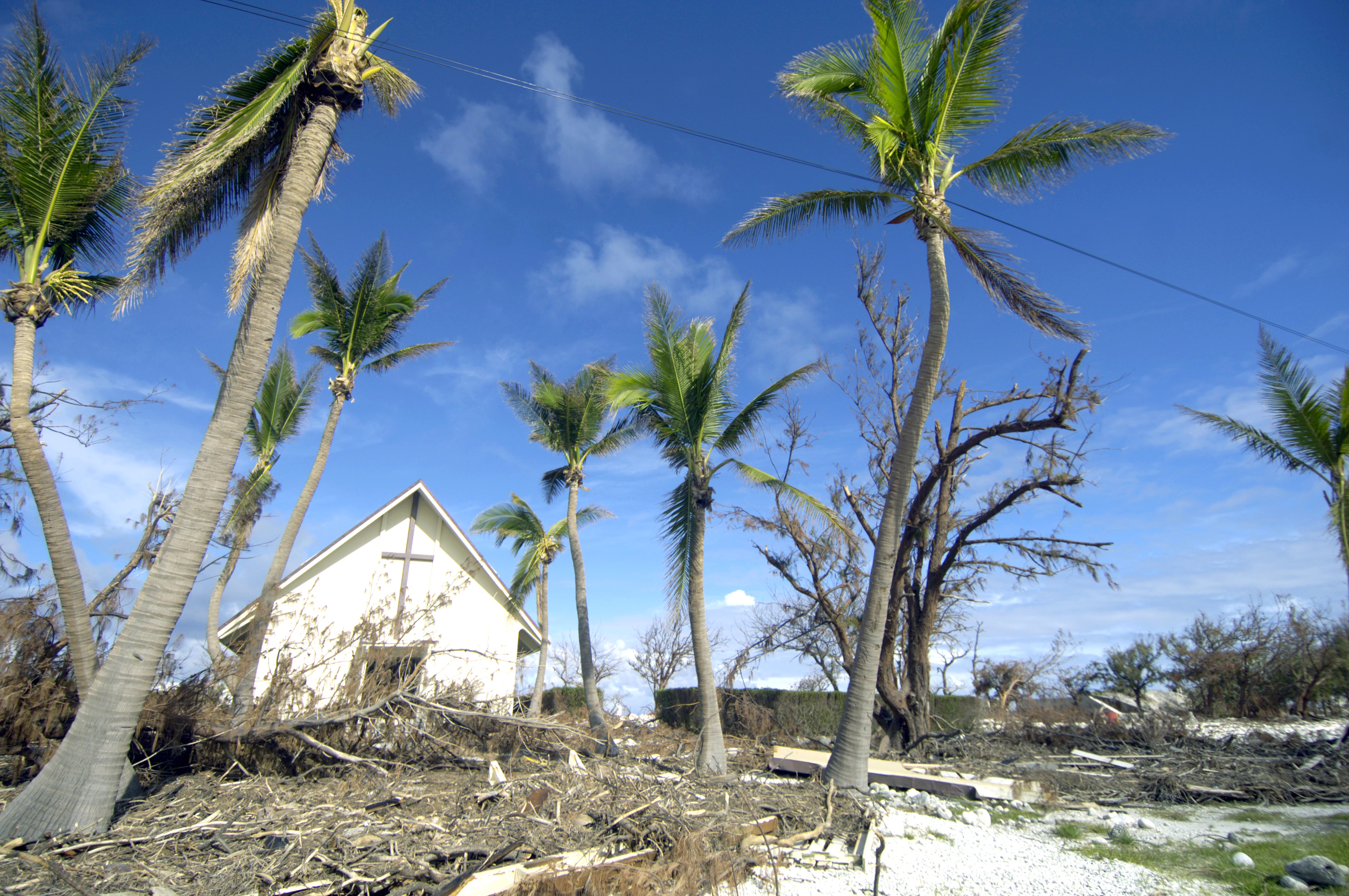 Dead trees and debris left by Typhoon Ioke in 2006 at the Memorial Chapel on Wake Island.